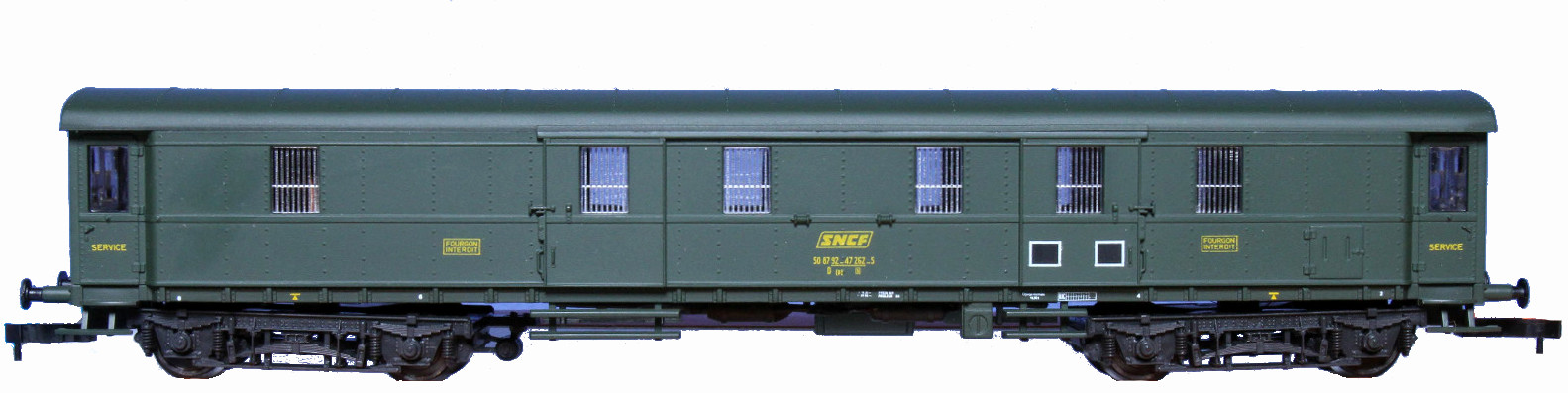 Fourgon Bastille SNCF (ex DR). Modèle réduit Roco.